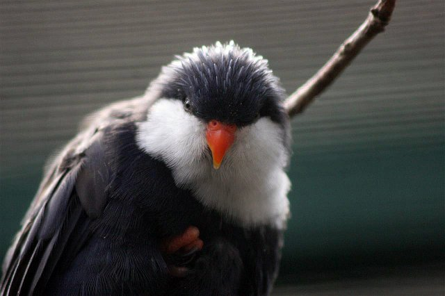 A Blue Lorikeet (also known as the Tahiti Lorikieet, Tahitian Lory, Blue Lory, and the Indigo Lory) at Walsrode Bird Park, Germany.